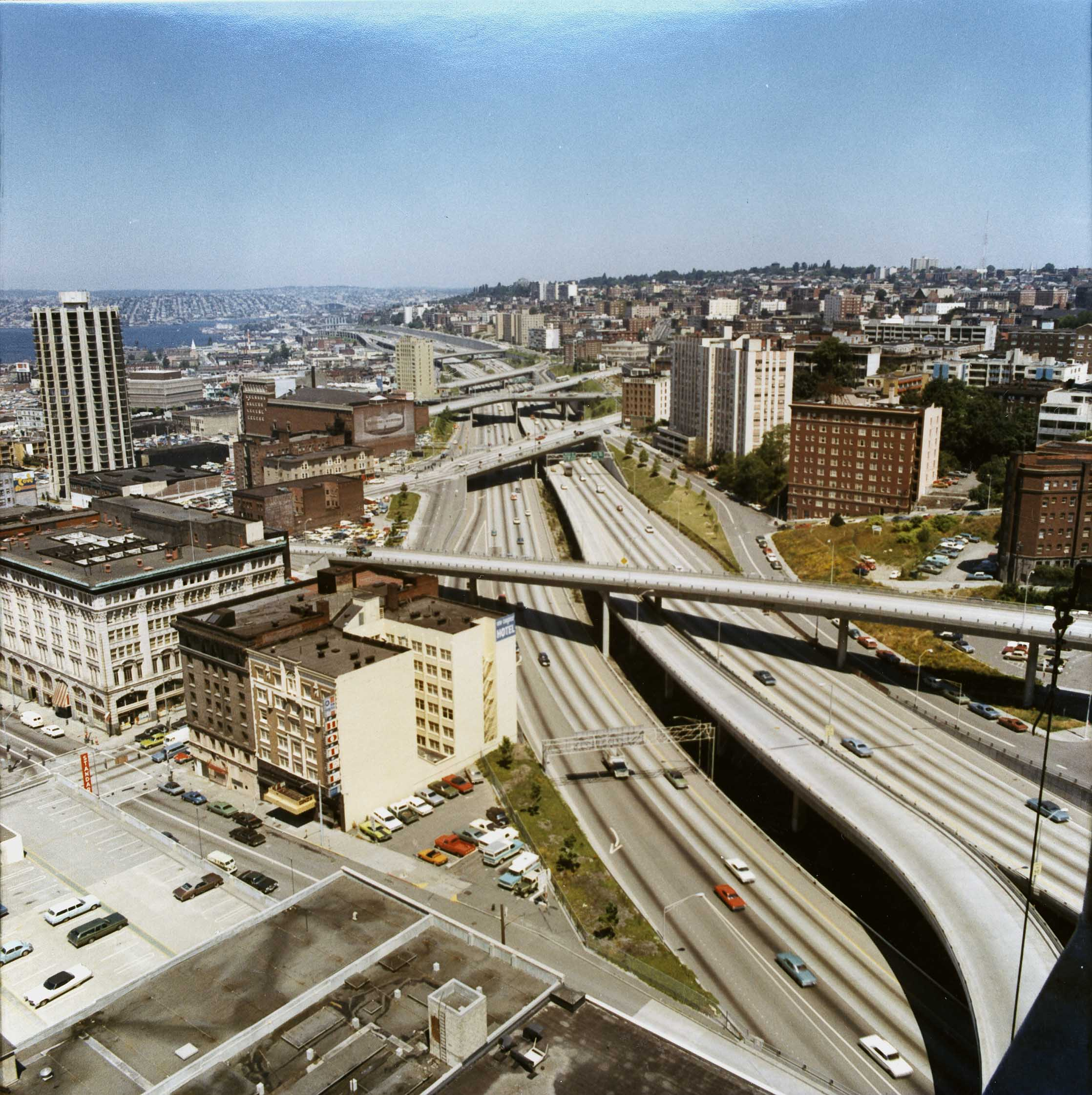 Aerial of Interstate 5, north from Downtown Seattle, 1971, before the construction of Freeway Park. Item 77857, Forward Thrust Photographs (Record Series 5804-04), Seattle Municipal Archives.